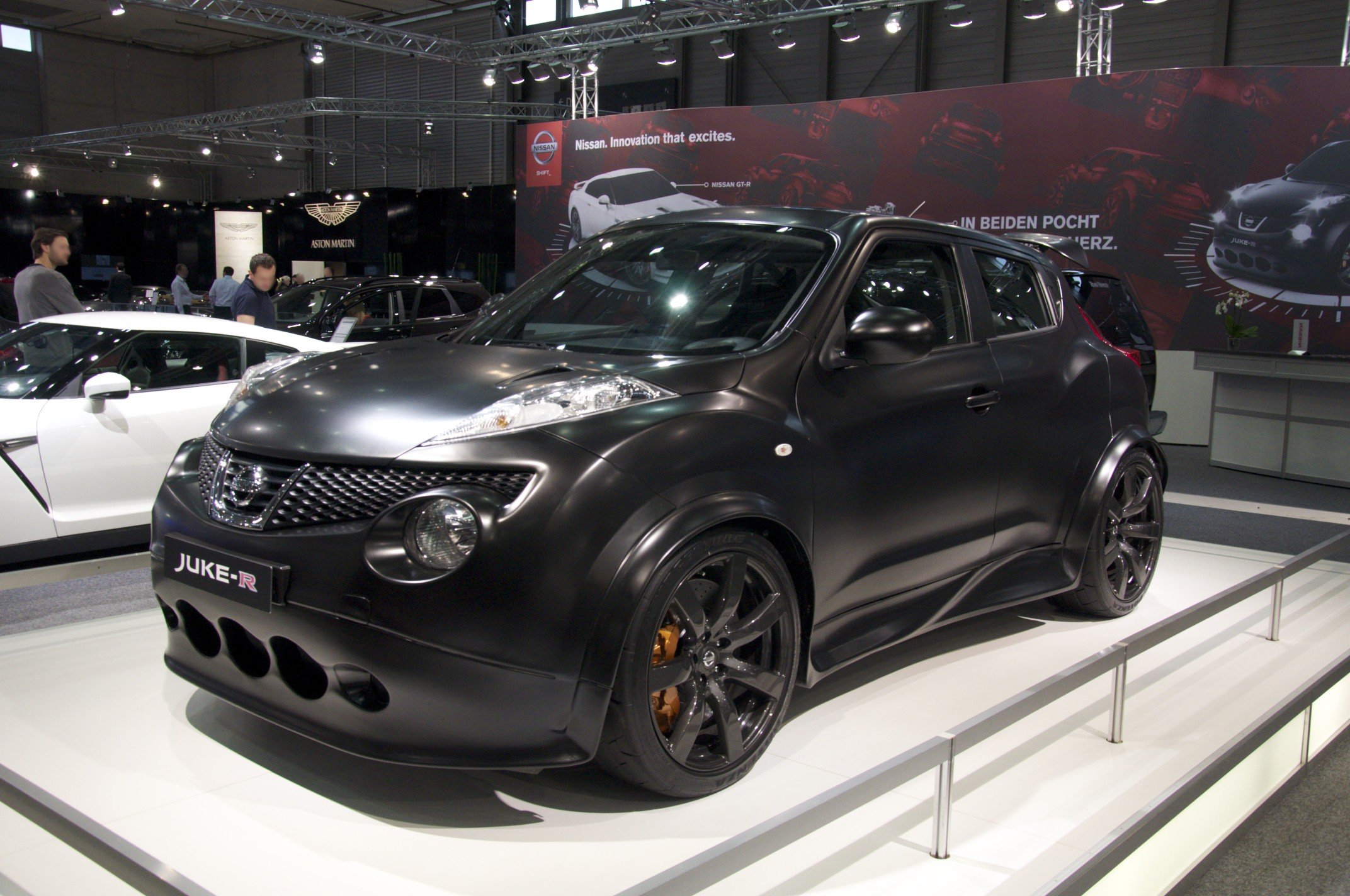 Front view of a Nissan-GTR-powered "Nissan Juke-R"